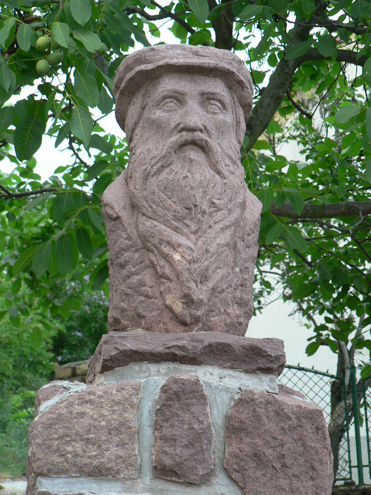 Kálvin János (Máhr Ferenc, 2009, permi vörös kő) - Alsóörs, Kálvin János utca a református templomhoz felvezető Kálvin János lépcsősor mellett [1]